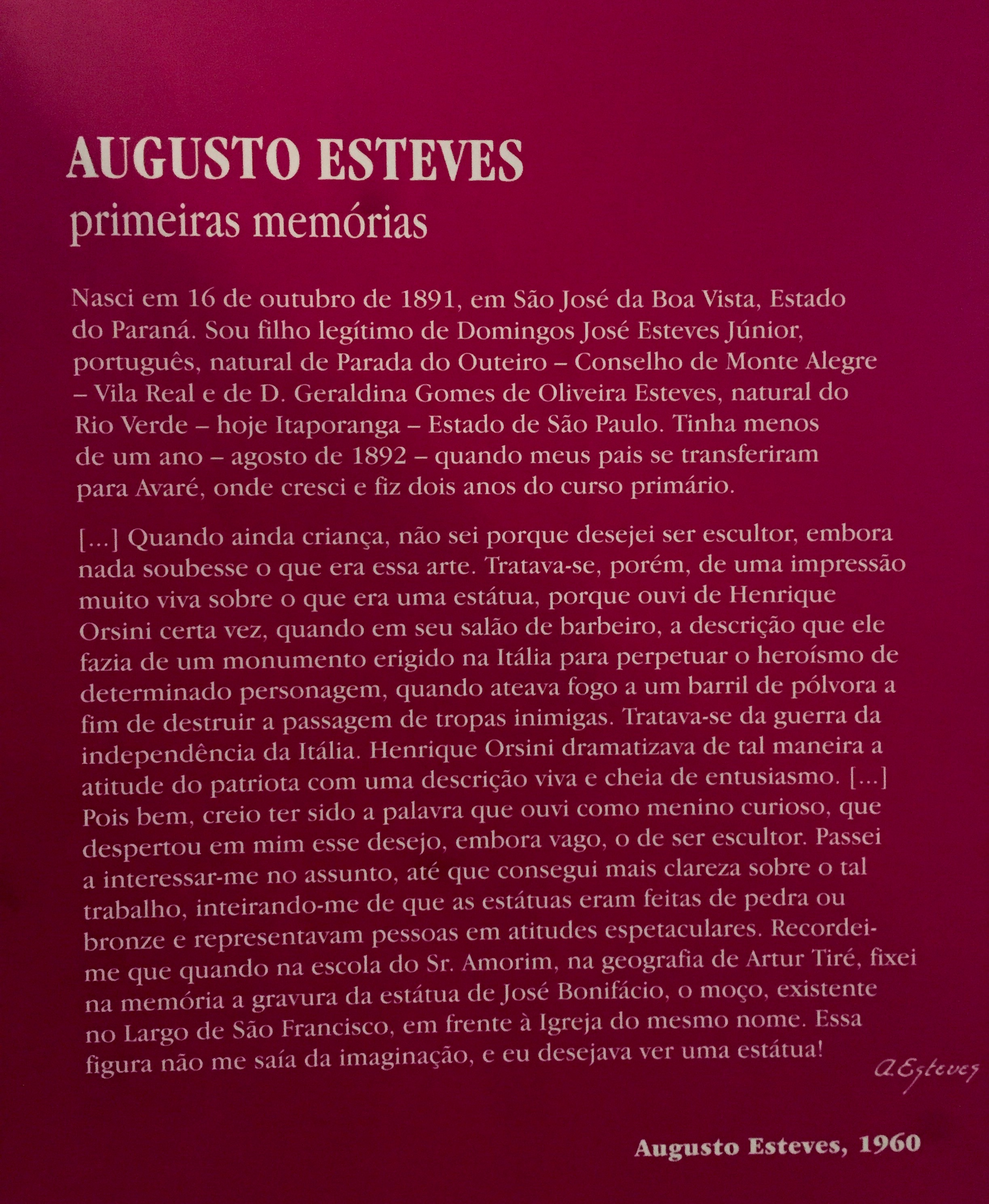 Information board about the childhood of Augusto Esteves, who is the theme of the museum's 2017 and 2018 exhibition.